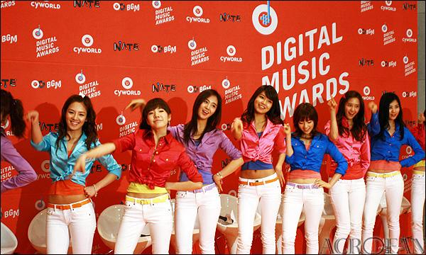 2009 Cyworld Digital Music Awards at the Girls' Generation.